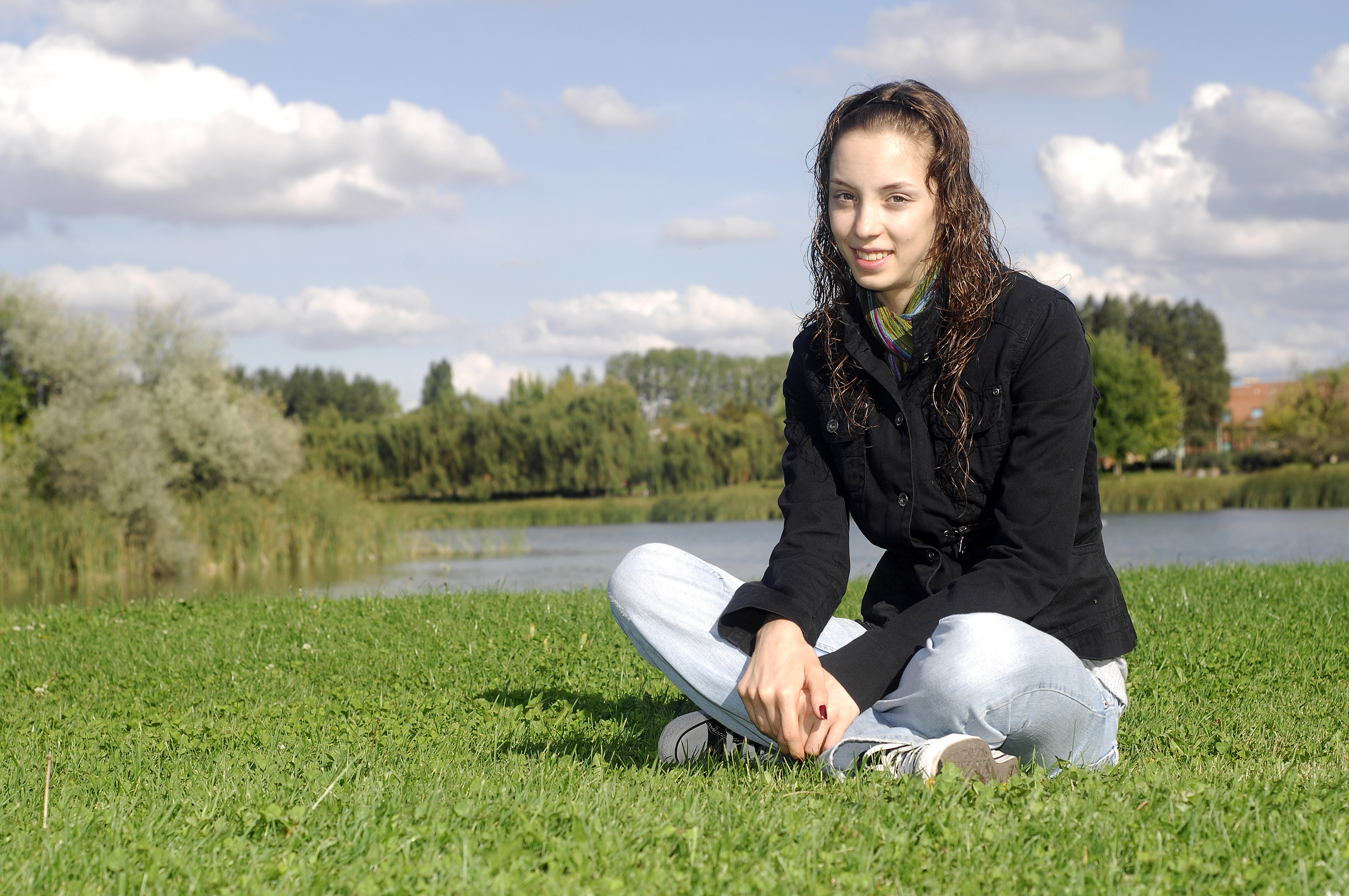 ANA MARIA PELAZ, GIMNASTA DE LA SELECCION ESPAÑOLA DE GIMNASIA RITMICAFOTO MIGUEL ANGEL SANTOS